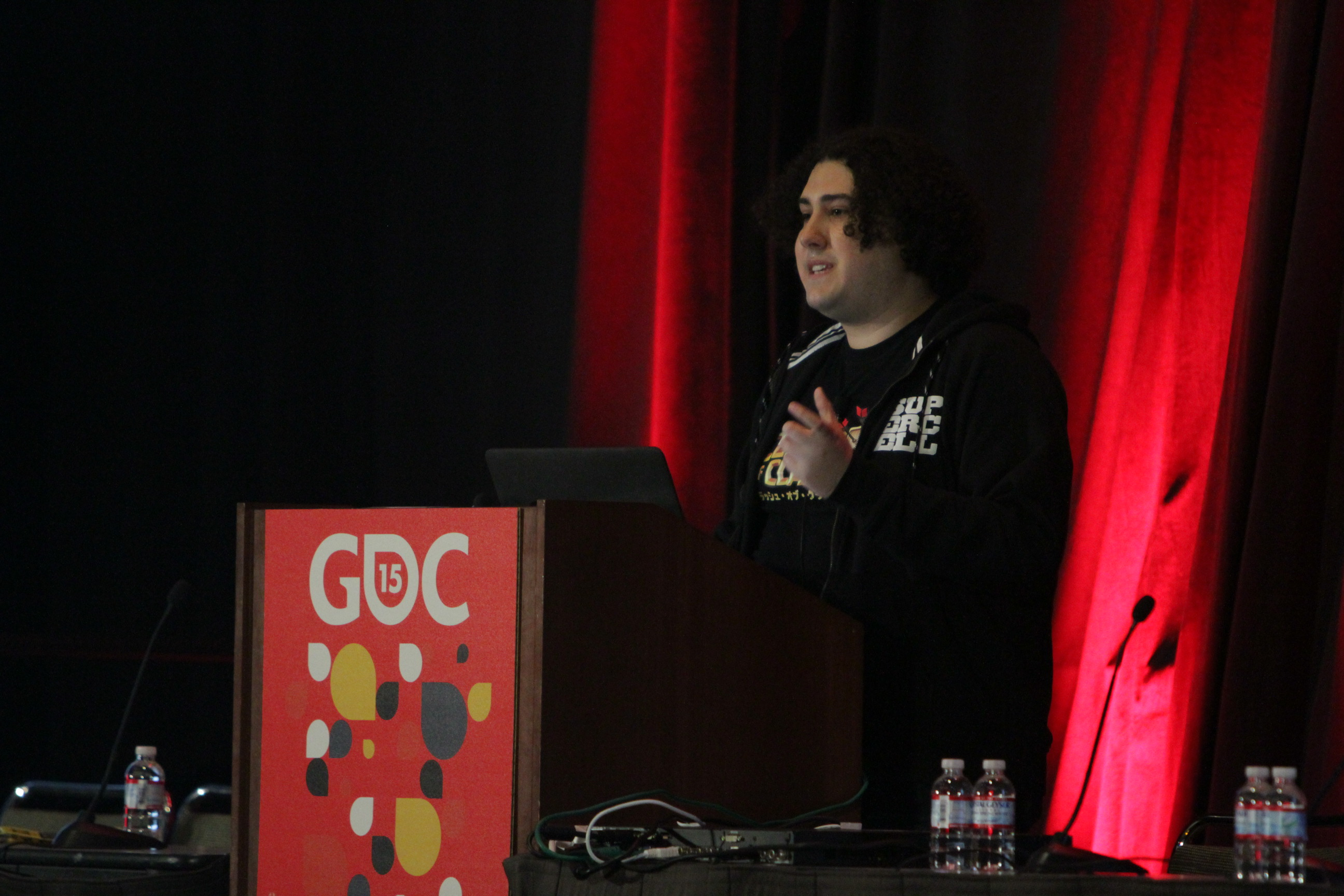 Clash of Clans: Designing Games That People Will Play For Years Jonas Collaros | Senior Server Engineer, Supercell Location: Room 3016, West Hall Date: Wednesday, March 4 Time: 12:00pm - 12:30pm